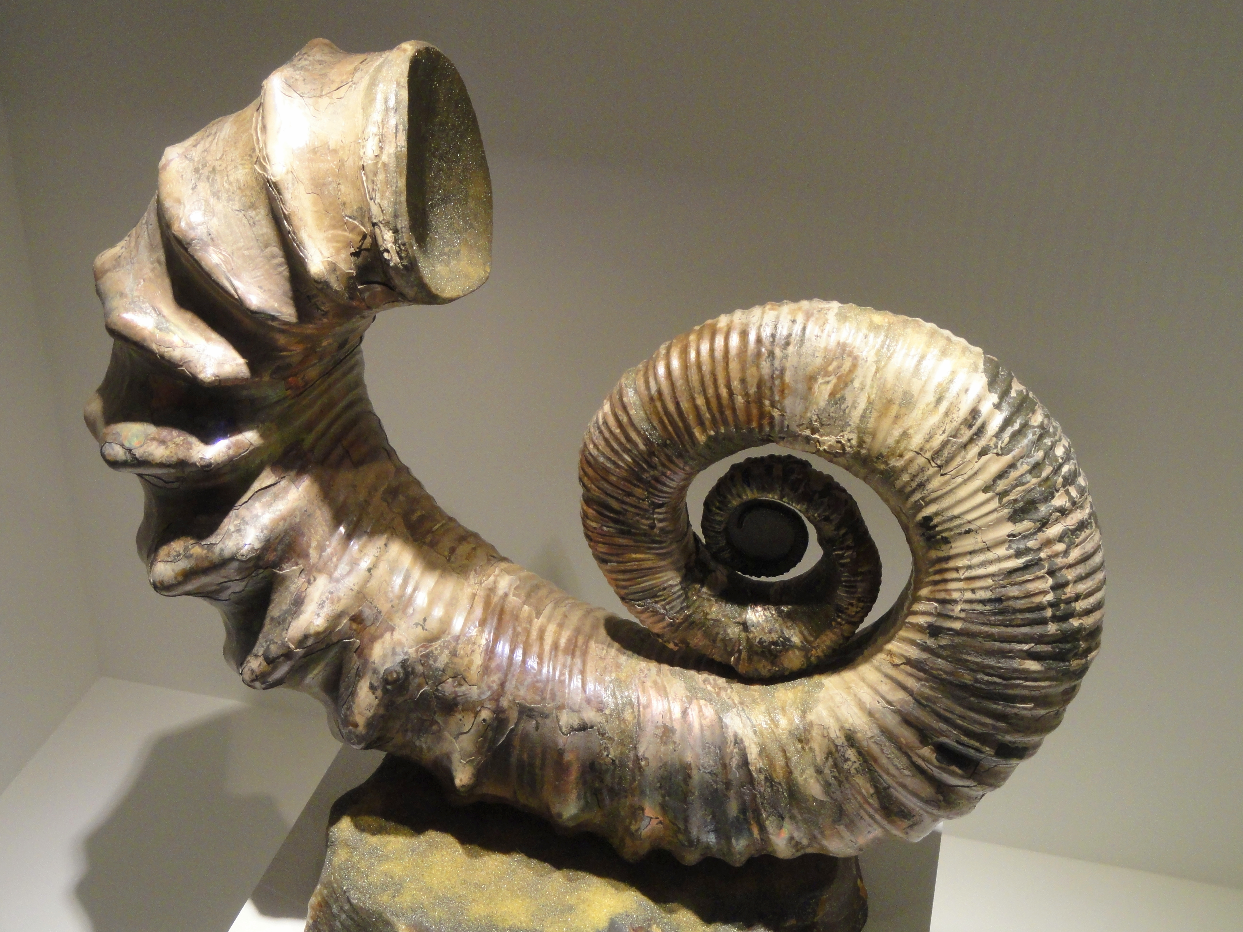 Exhibit in the Houston Museum of Natural Science, Houston, Texas, USA.